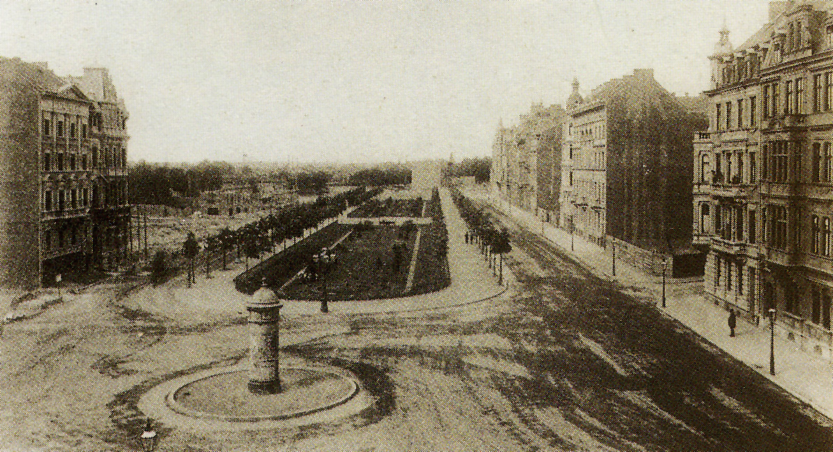 Cologne, Kaiser-Wilhelm-Ring 1886